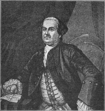 Sir William Phips